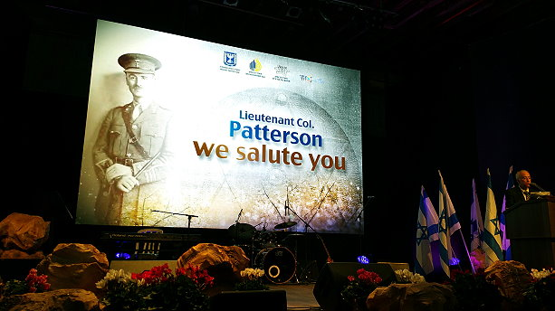 Picture of the reburial ceremony in Avichayil, Israel for Lt. Col. John Henry Patterson 12-4-14